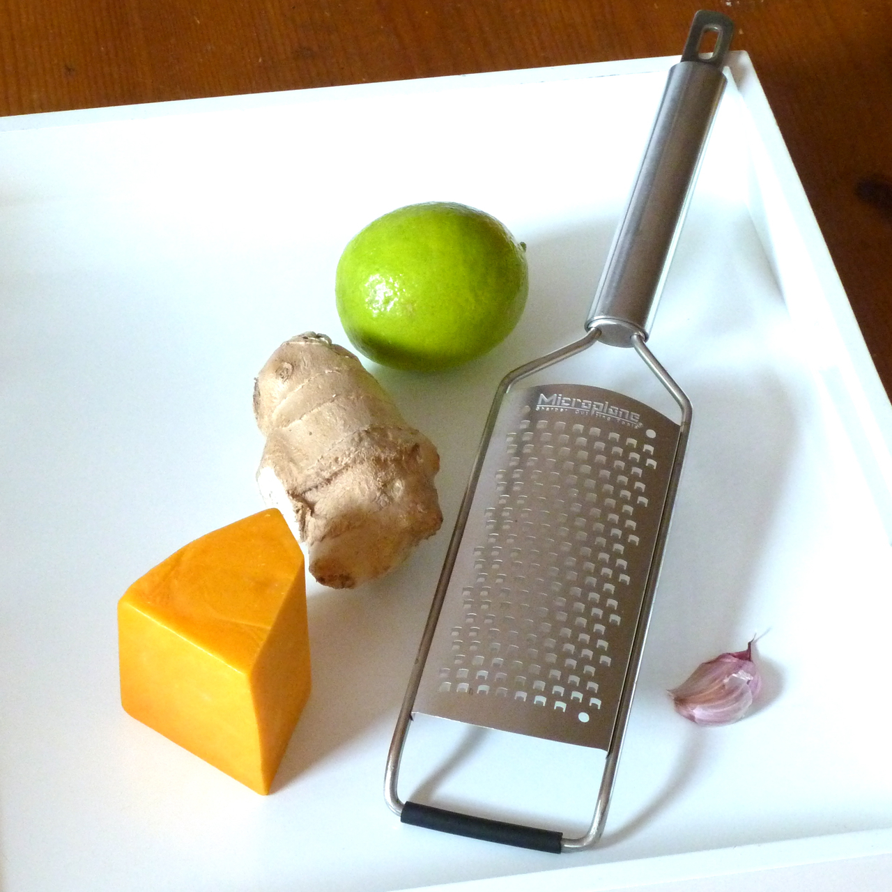 A type Microplane with some examples of foods to grate, like hard cheese, ginger root, lemon and garlic.